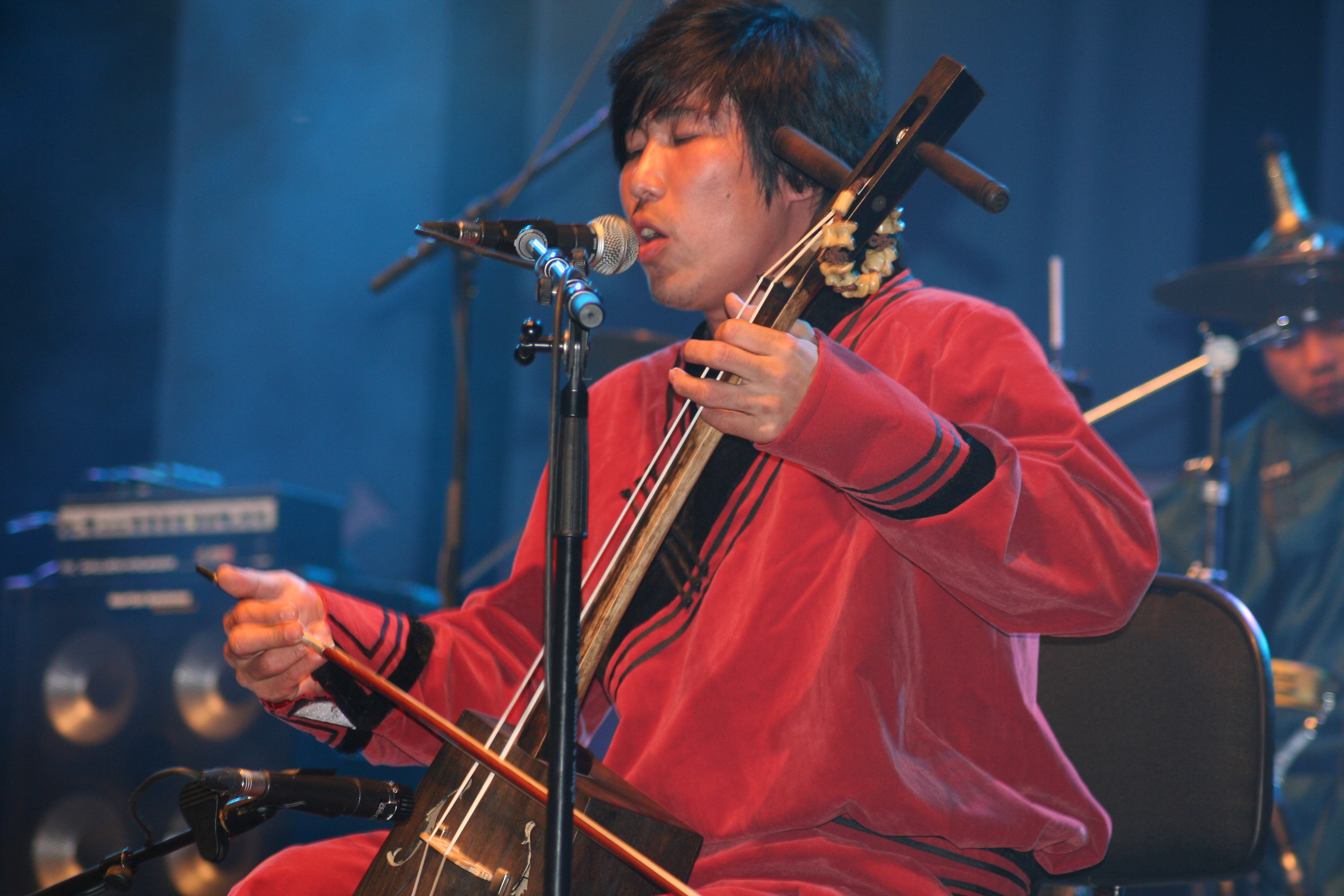 FMM Festival das Musicas do Mundo in Sines - Group Hanggai from China